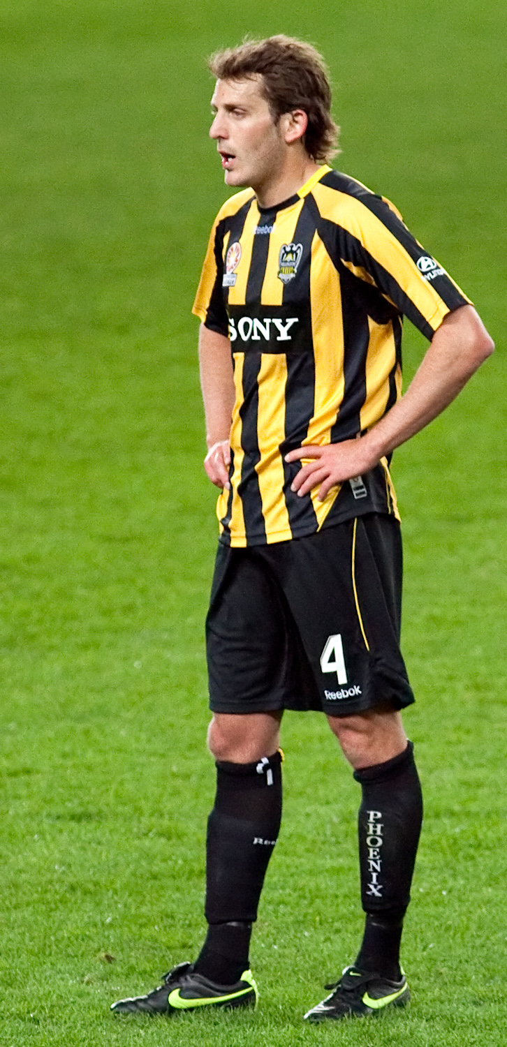 Jonathan McKain playing for the Wellington Phoenix against Sydney FC in the 2009-10 A-League.